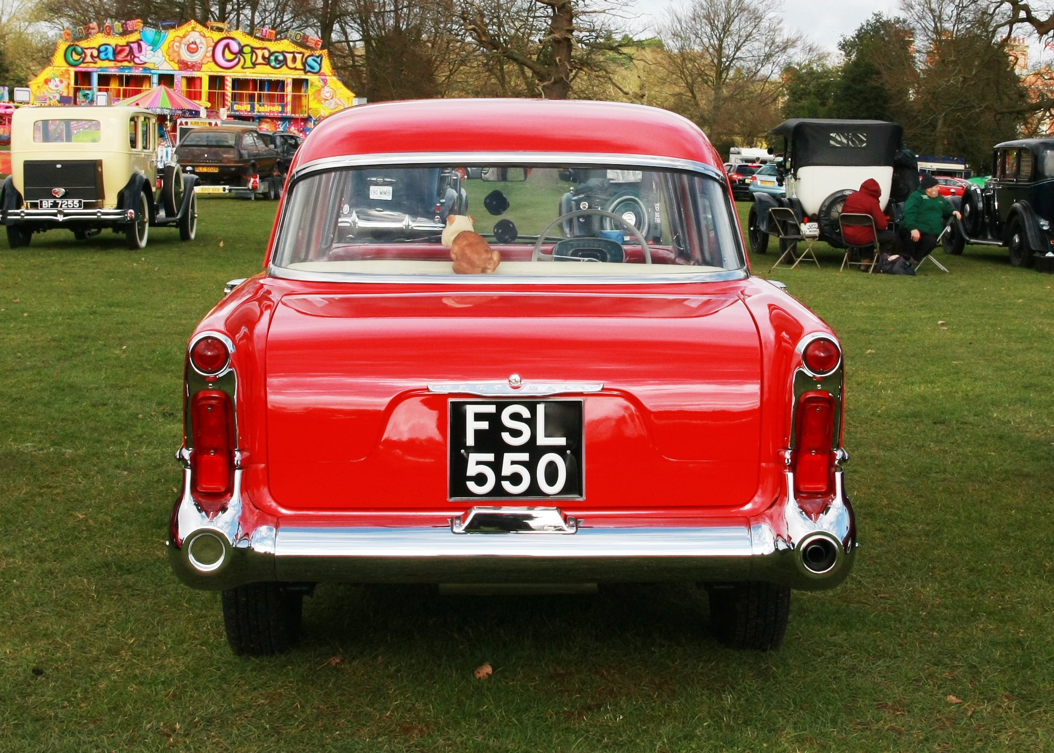 Vauxhall Victor (1958) at Weston Park (2016)